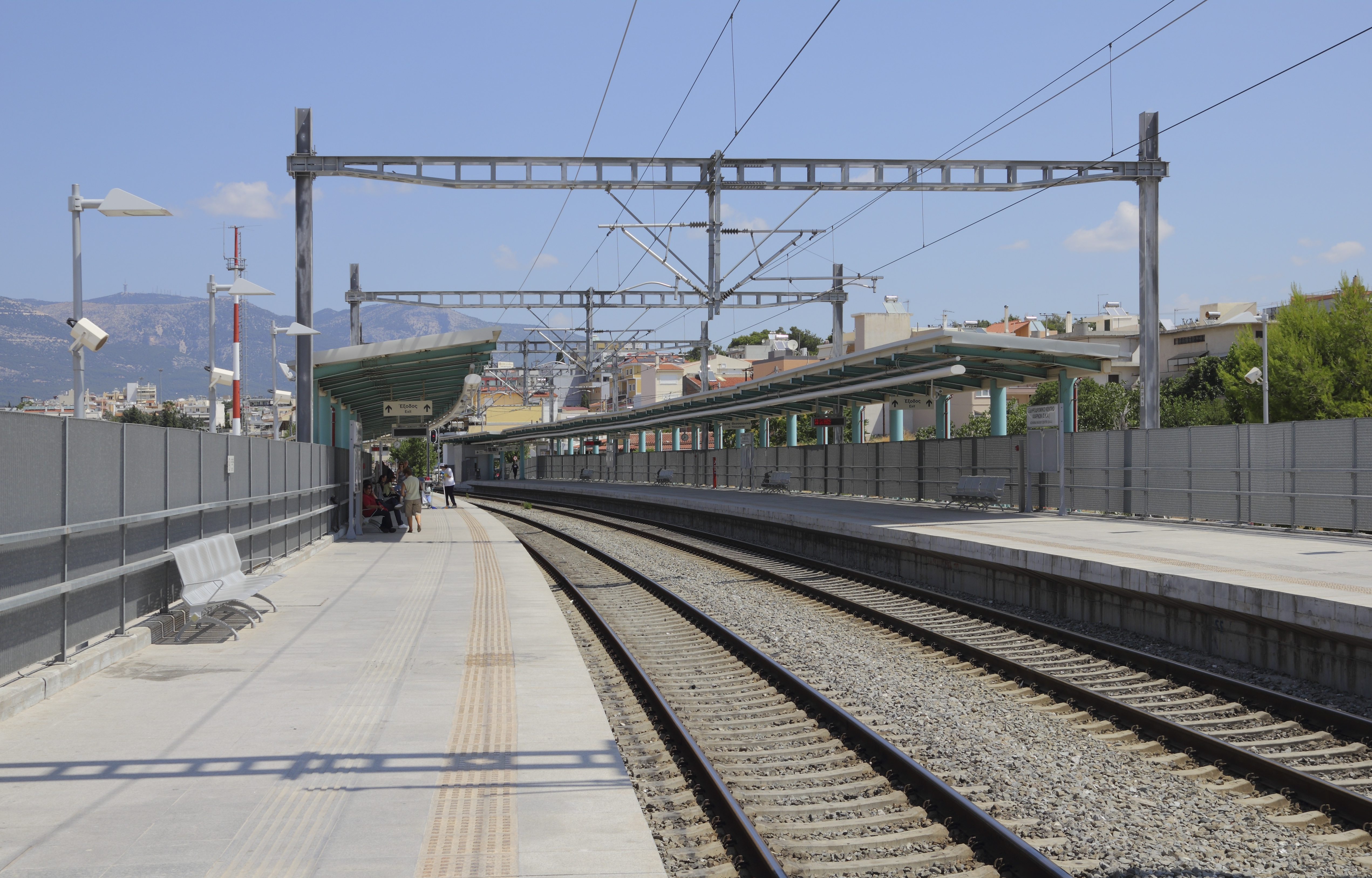 Proastiakos station «SKA» near Athens (Attica, Greece)